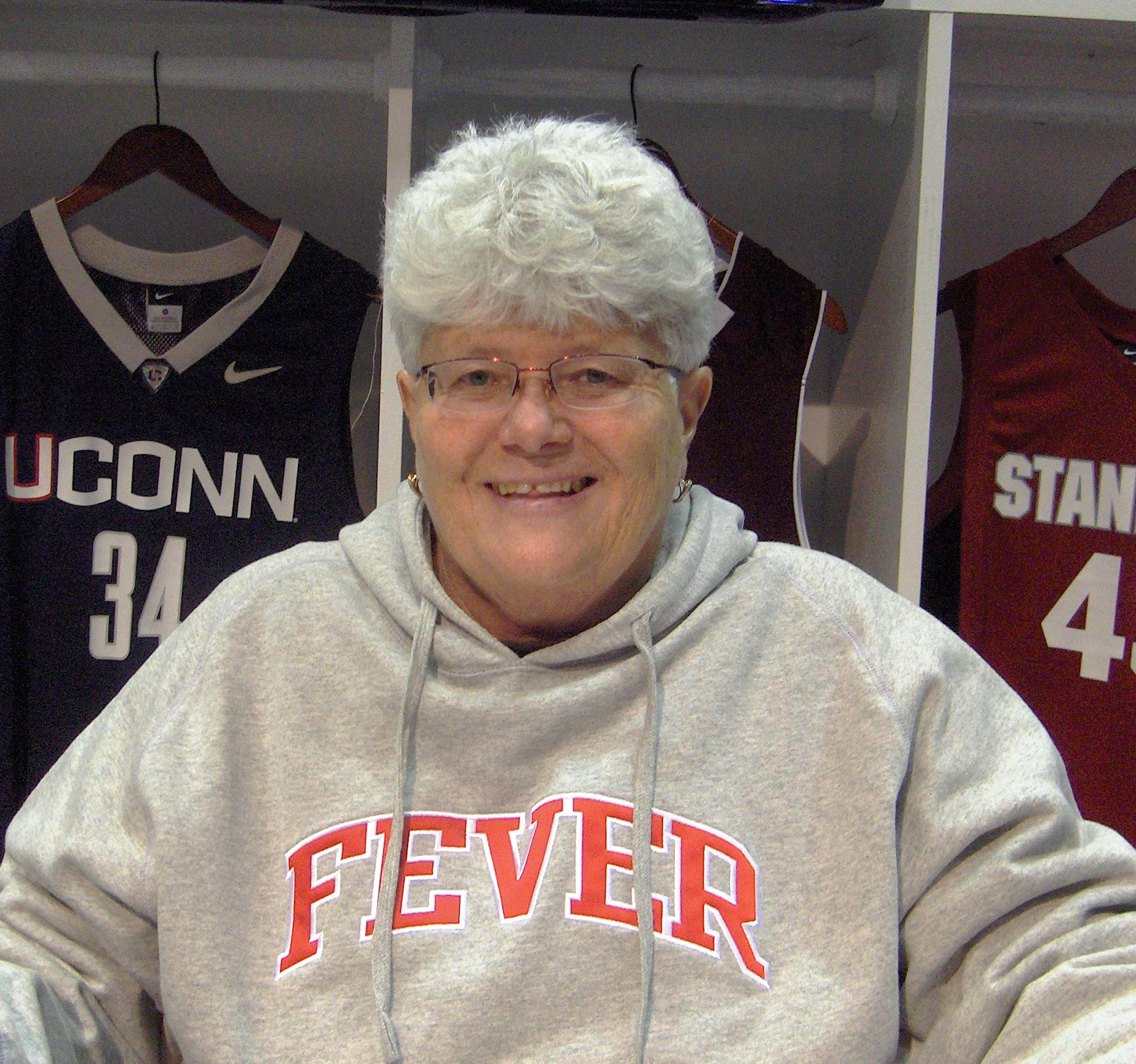 Photo of Lin Dunn taken at the 2011 WBCA Convention in Indianapolis IN.